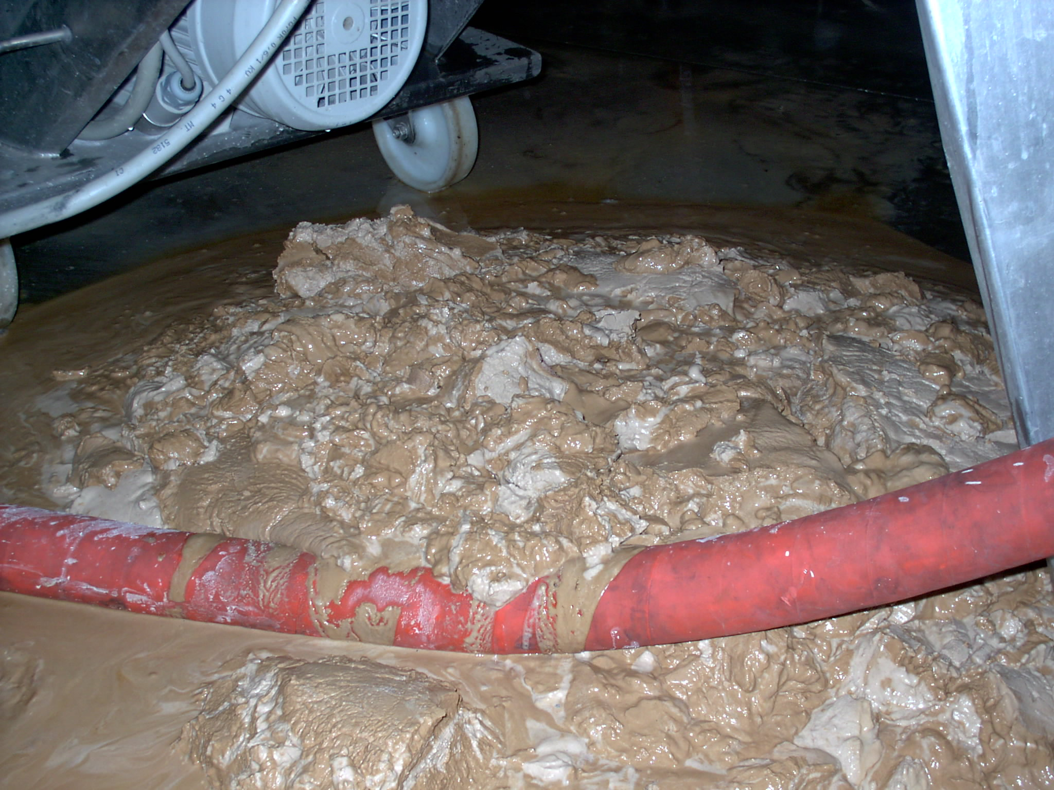 A mixture of diatomaceous earth and yeast. The diatomaceous earth was used to filter yeast and impurities out of beer before canning. Photograph by Ginkgo100 taken at Oskar Blues brewery, Lyons, Colorado.